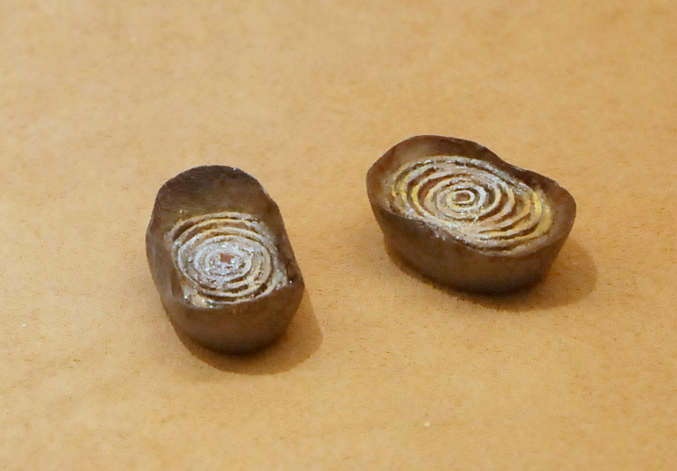 Silver yuanbao (sycee), exhibited in Beijing Lu Xun Museum